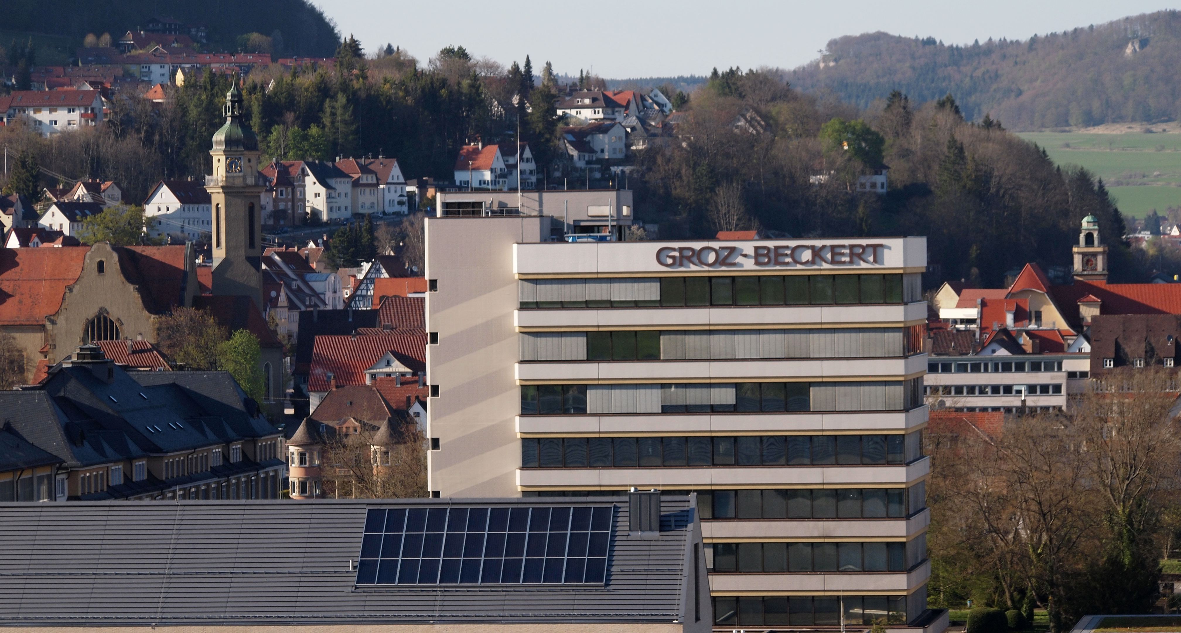 Groz-Beckert needle factory headquarters in Ebingen, Germany